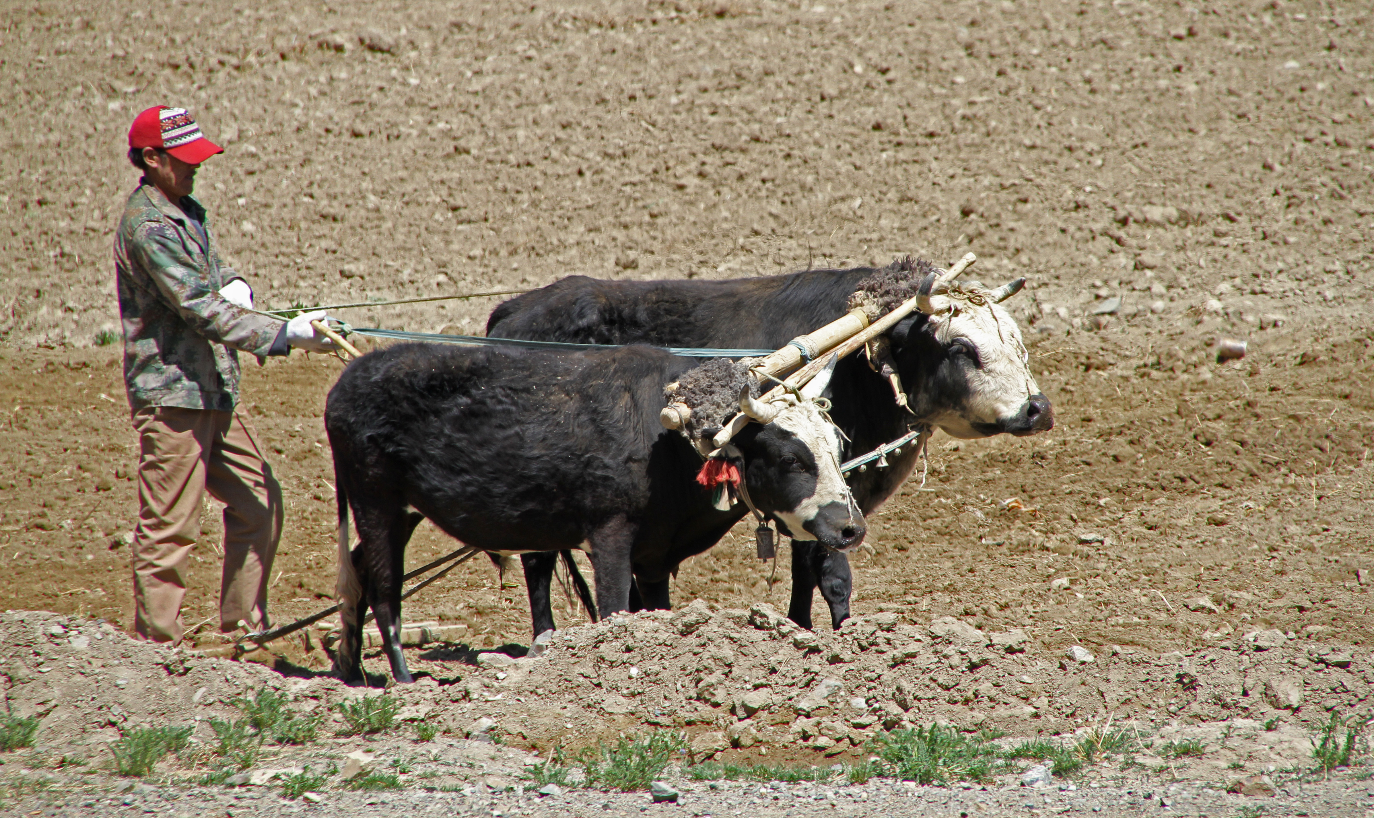 Agriculture in Xigazê prefecture in Tibet